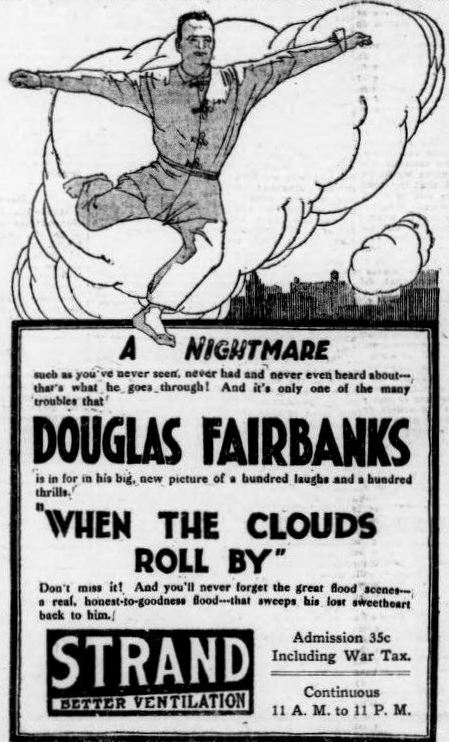 Newspaper ad for the American film When the Clouds Roll By (1919) with Douglas Fairbanks, on page 9 of the January 1, 1920 Duluth Herald.